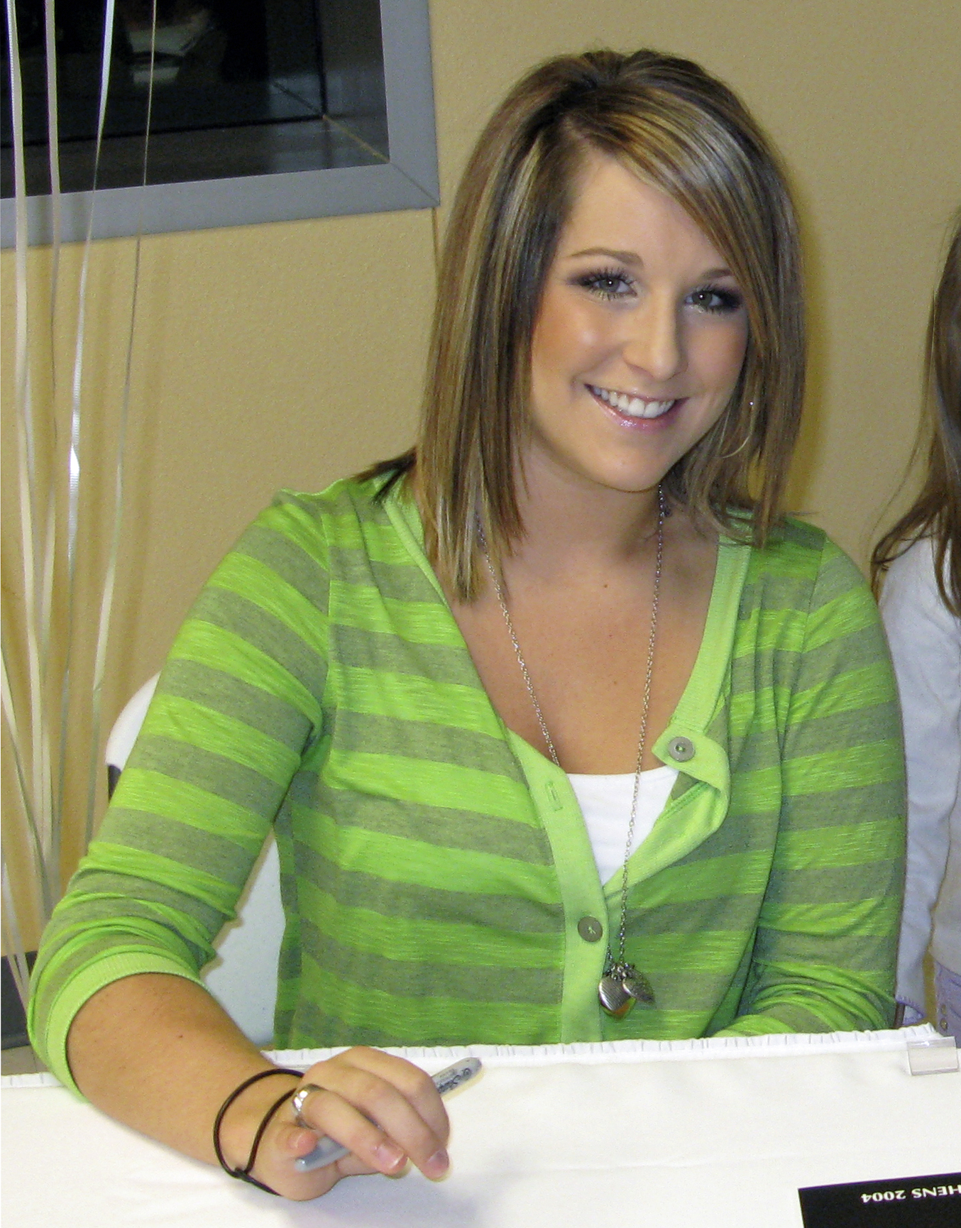 the Olympic Gold medalist, Carly Patterson (Athens 2004)